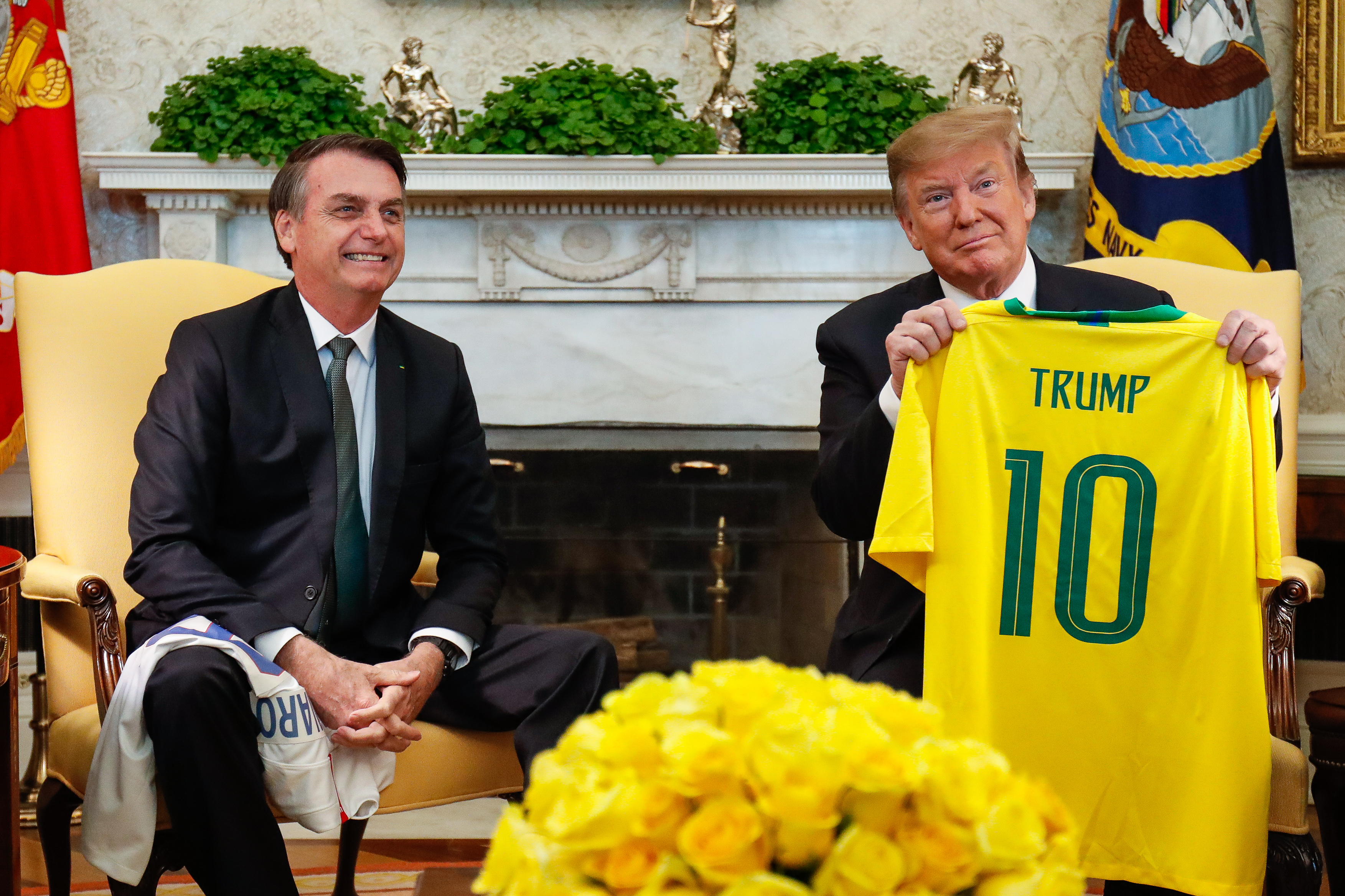 (Washington, DC - EUA 19/03/2019) O Presidente da República Jair Bolsonaro entrega uma camisa personalizada, simbolizando o esporte nacional, ao Senhor Donald Trump, Presidente dos Estados Unidos da América. Foto: Alan Santos/PR